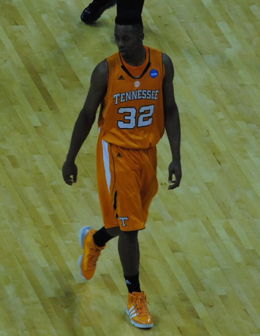 Scotty Hopson roams around the wing